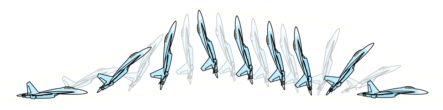 Pugachev's Cobra ACM, as done by the Su-27 Flanker fighter jet